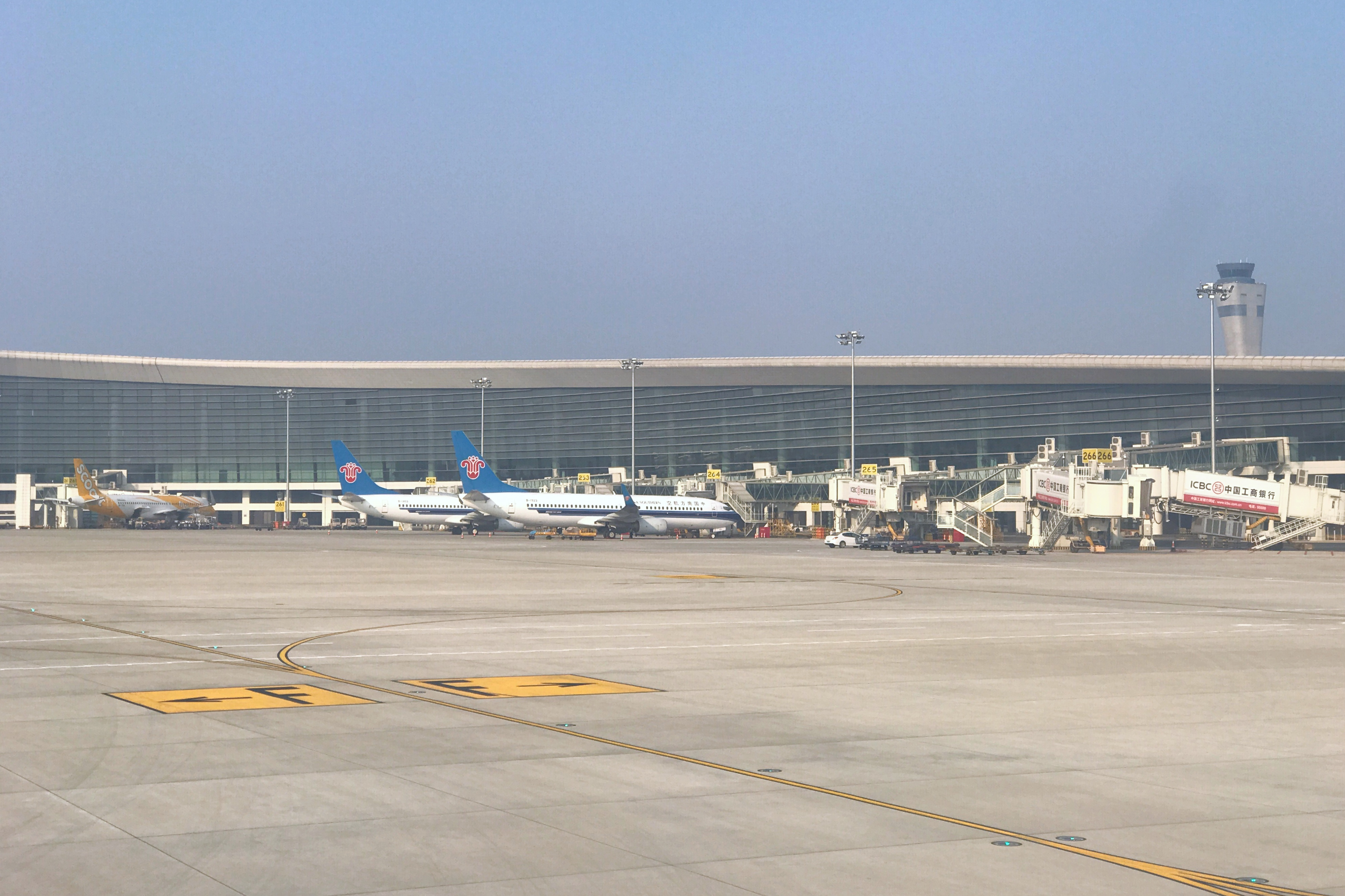 Aircrafts parking at T2 international concourse of Xinzheng Airport